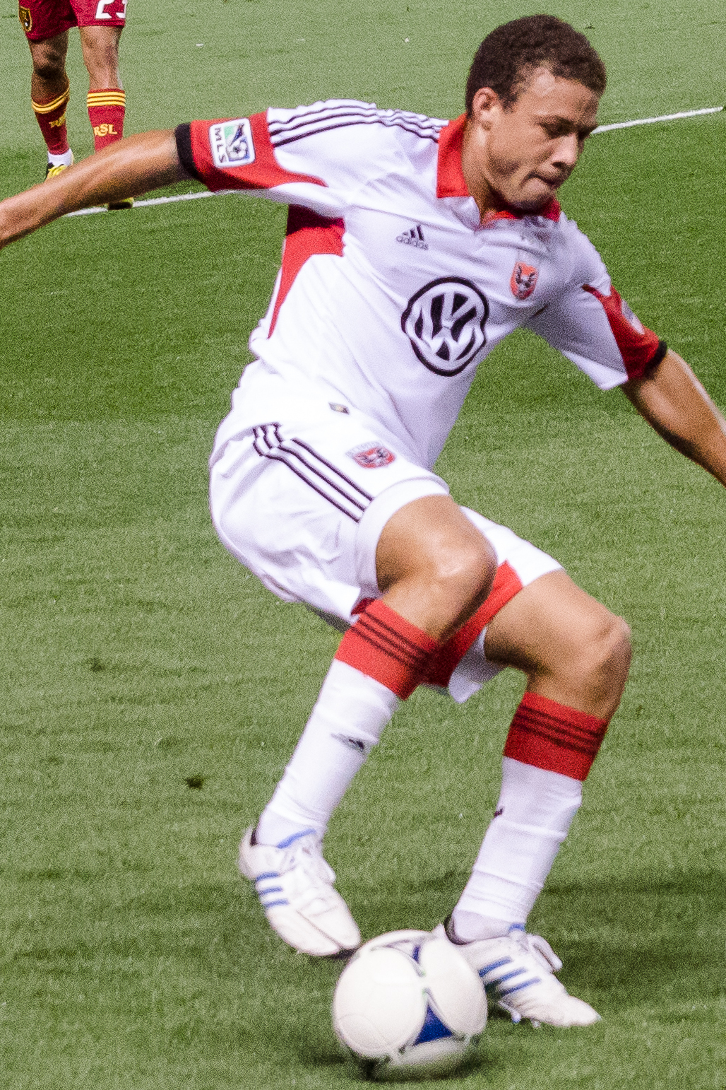 Real Salt Lake vs DC United